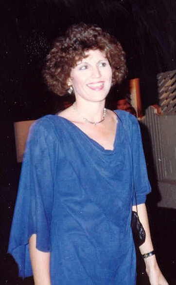 Photo of Lucie Arnaz at the Academy Awards.